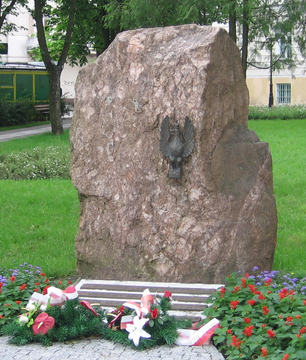 33rd Regiment Infantry obelisk in Łomża